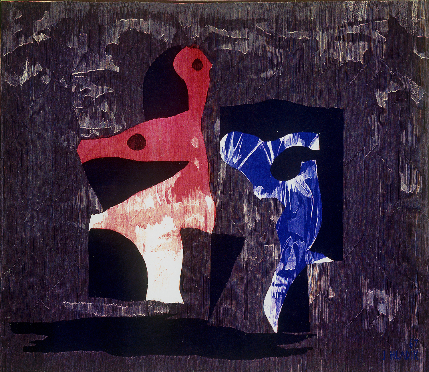 Hand-woven tapestry Gemini (1967) by Jan Hladík, original size 260 x 300 cm, cotton (warp) and wool (weft)